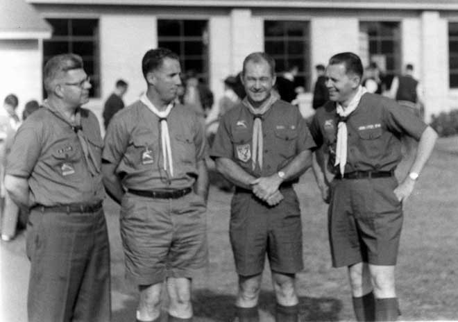 (L-R) Joe St. Clair, Fran Peterson, Maury Tripp, and Bela H. Banathy at a the White Stag Leadership Development Program Indaba held at Fort Ord during November, 1962. These four men were instrumental in developing the experimental Wood Badge course #25-2, held at Fort Ord, California, in January and February 1968. This course was a pilot test of the new Wood Badge program that marked the shift from teaching Scoutcraft skills to leadership skills. These four men, along with Paul Ferenc Sujan, were instrumental in growing the White Stag Leadership Development Program that Banathy founded in 1958, from which the Wood Badge leadership skills were adapted.